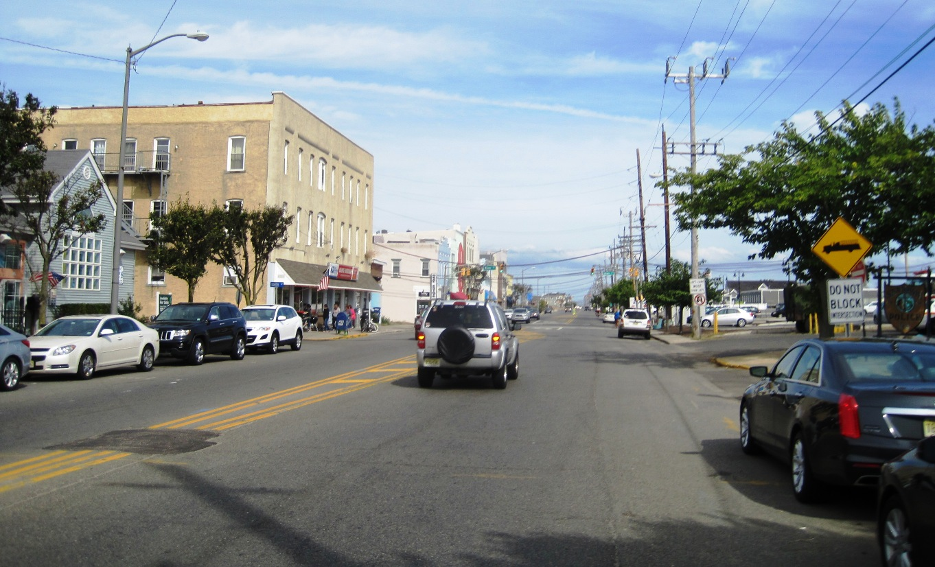 Photo showing downtown Sea Bright taken along New Jersey Route 36 northbound at South Street.